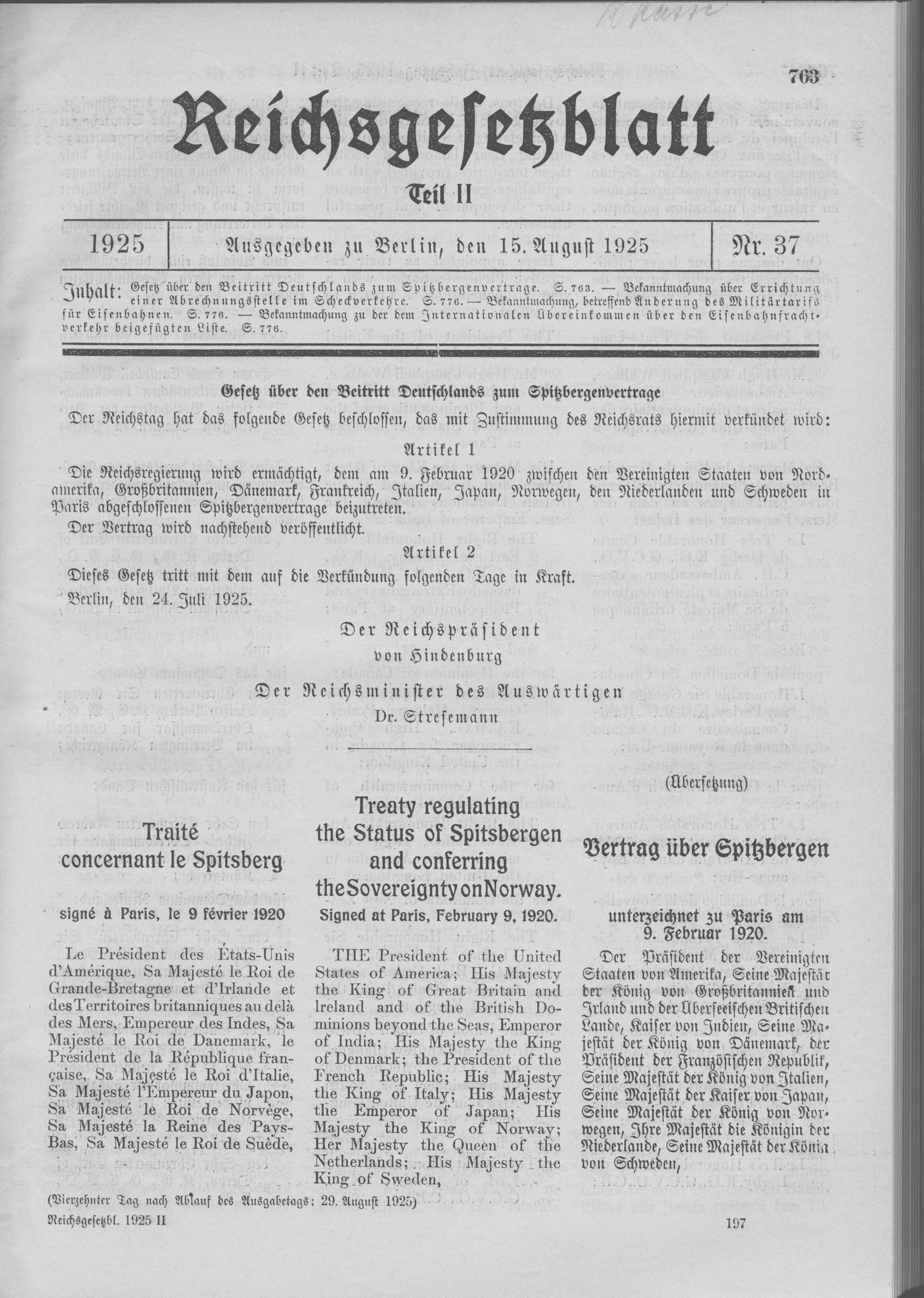 Scan from the Imperial Law Gazette of Germany, 1925, part 2